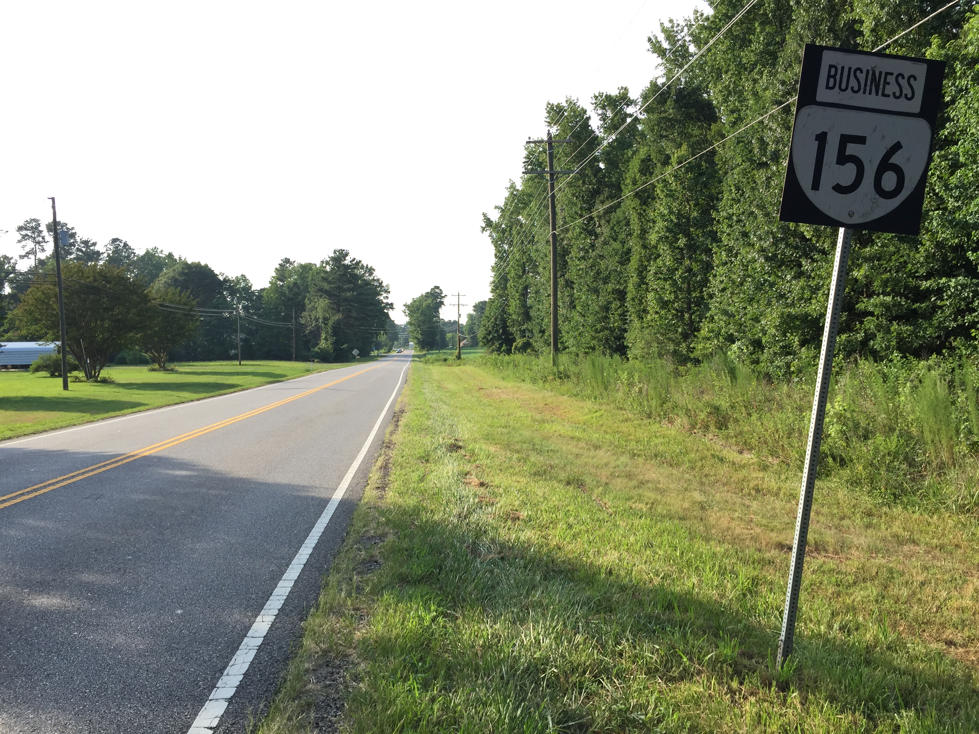 View north along Virginia State Route 156 Business (Prince George Drive) at Virginia State Route 109 (Courthouse Road) in Prince George, Prince George County, Virginia